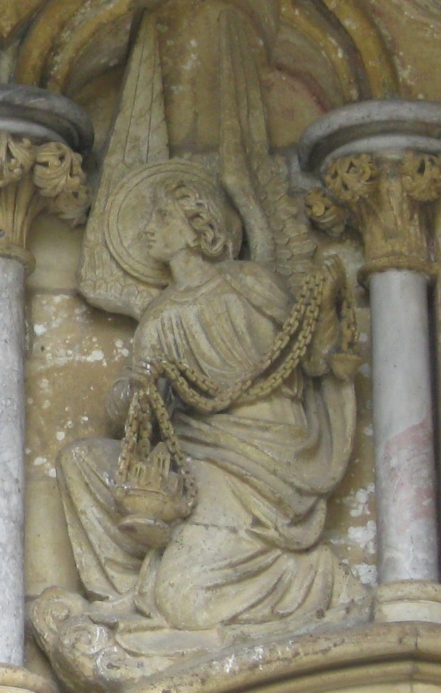 Statue of a censing angel to the right of the virgin Mary and Christ Child in the porch of the West Front of Salisbury cathedral, UK